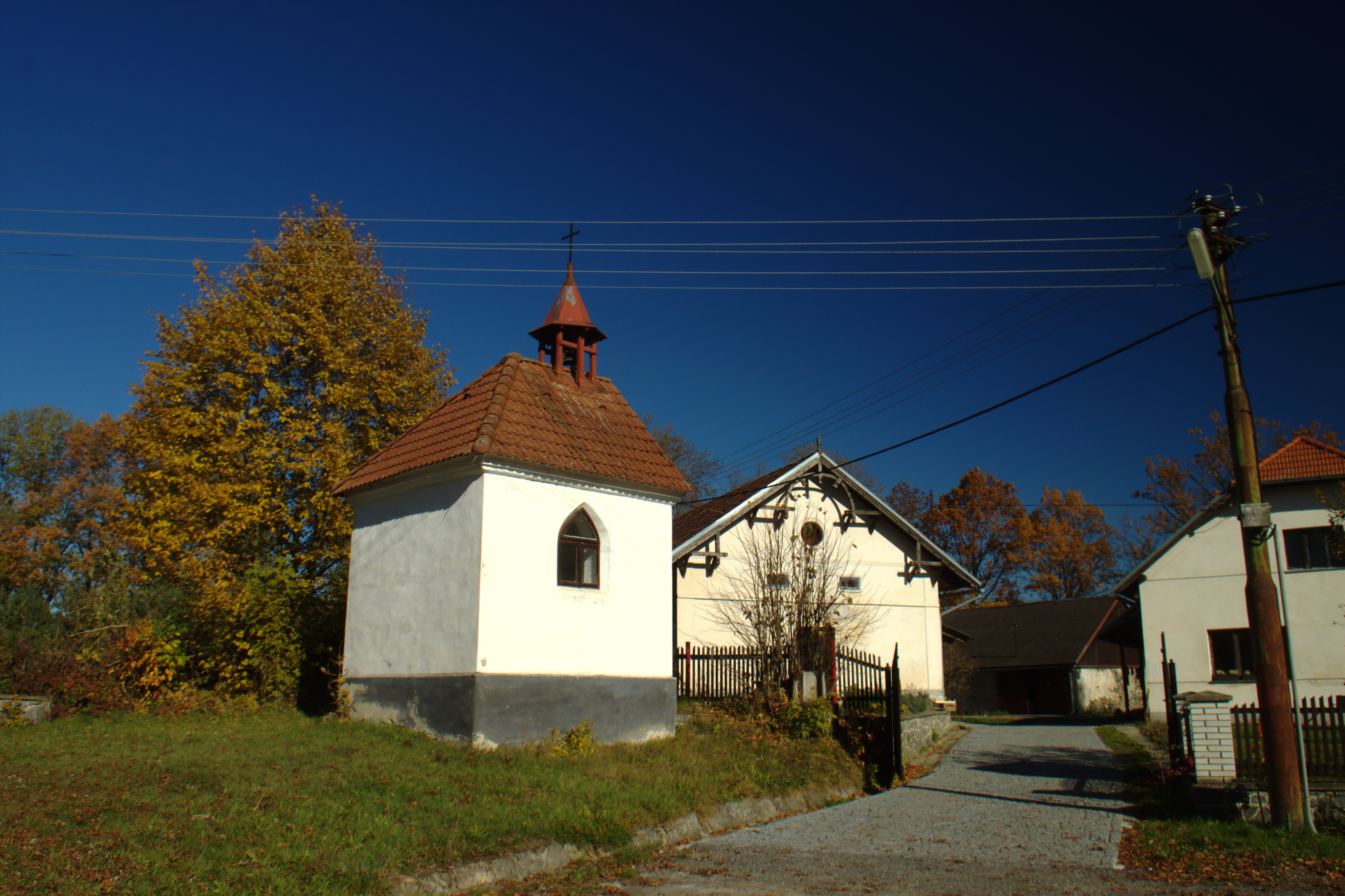 A chapel in teh village of Těchařovice, Central Bohemia, CZ